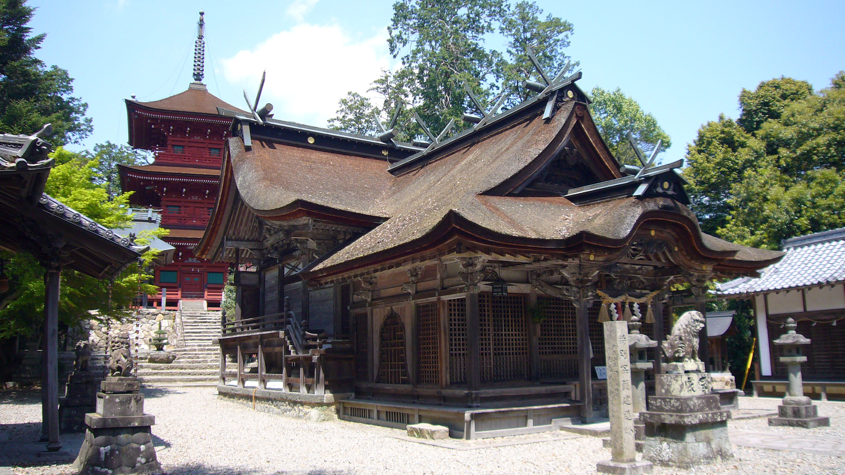 Kaibara Hachiman Jinja in Tamba, Japan